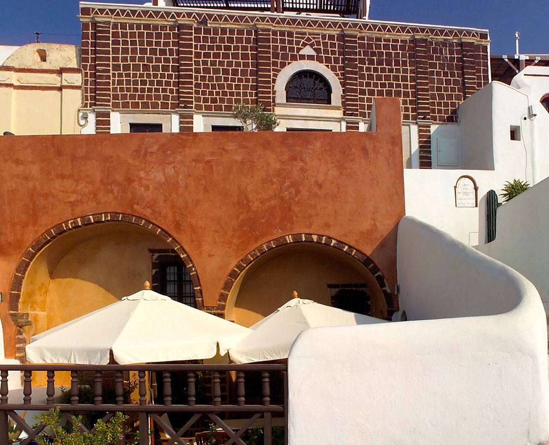 Two storey Renaissance inspired sea captain's house located atop the Oia caldera with wonderful views to the sea, caldera and volcano